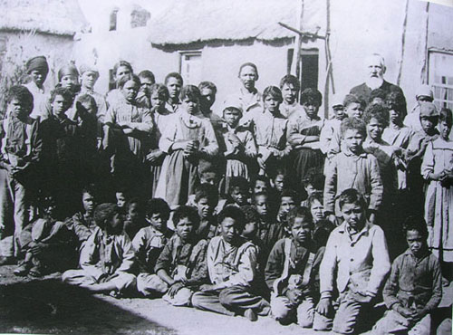 the Mission school in Rehoboth, Namibia run by Friedrich Heidmann; 1898